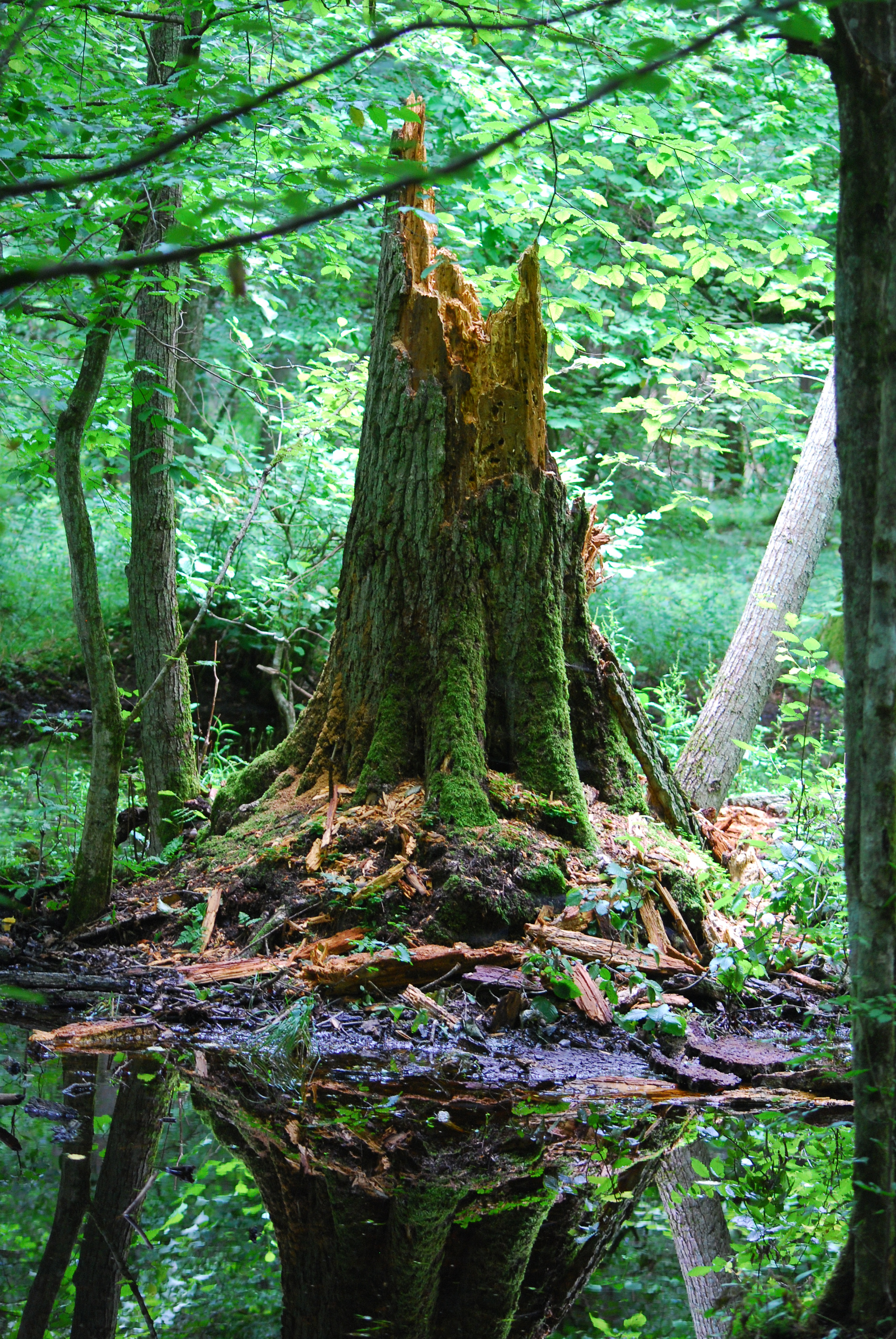 This photo from Podlaskie Voievodeship was taken during Polish Wikiexpedition 2009 set up by Wikimedia Polska Association. The making of this document was supported by Wikimedia Polska. Rezerwat ochrony scisłej Białowieskiego Parku Narodowego